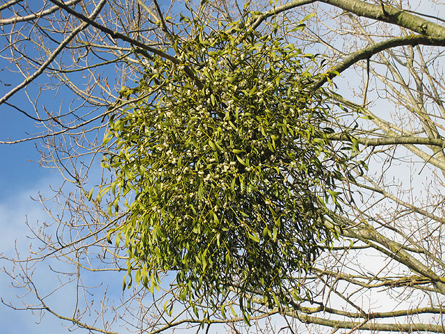 Mistletoe, coming soon to a market near you A parasitic plant which grows as a hanging bush on host trees. The flowers appear late in the autumn, and the fruits, or berries, follow soon after. 'Viscum album' is the most common variety in Europe and can be found in southern England and Wales. The plant reproduces itself naturally with the assistance of birds such as the mistle thrush. Their droppings, which contain the seeds, land on a tree's bark and germinate. Sometimes the sticky flesh containing the seed sticks to the bird's beak. The bird may then wipe it off by rubbing its beak against the bark of a neighbouring tree. The seed sticks to the bark and starts to grow. See also Viscum_album